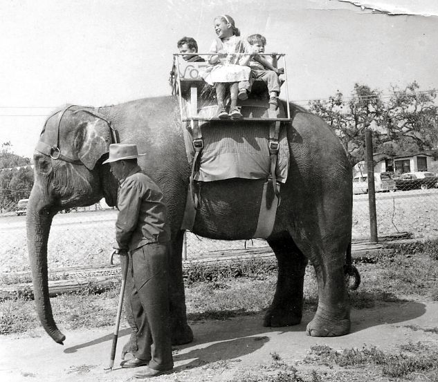 Children on an elephant at Jungleland USA, 1962, being guided by a keeper Other information Photo by George Garrigues.